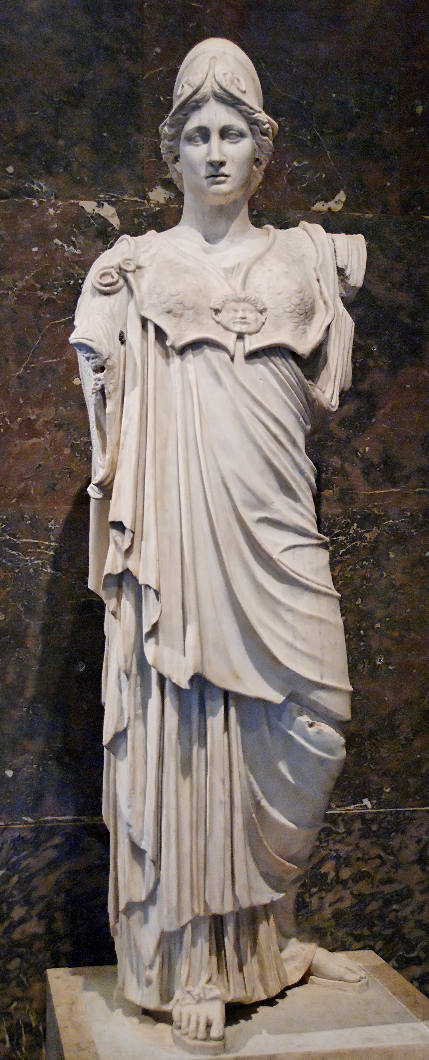 Athena of the Hope-Farnese type. Marble, Roman copy from the 1st–2nd centuries AD after a Greek original, probably the late 5th century BC bronze cult-statue of Athena Itonia (near Koroneia) by Agoracritos, described by Pausanias (IX, 34, 1). The antique head, of the Mattei type, does not belong to the statue.